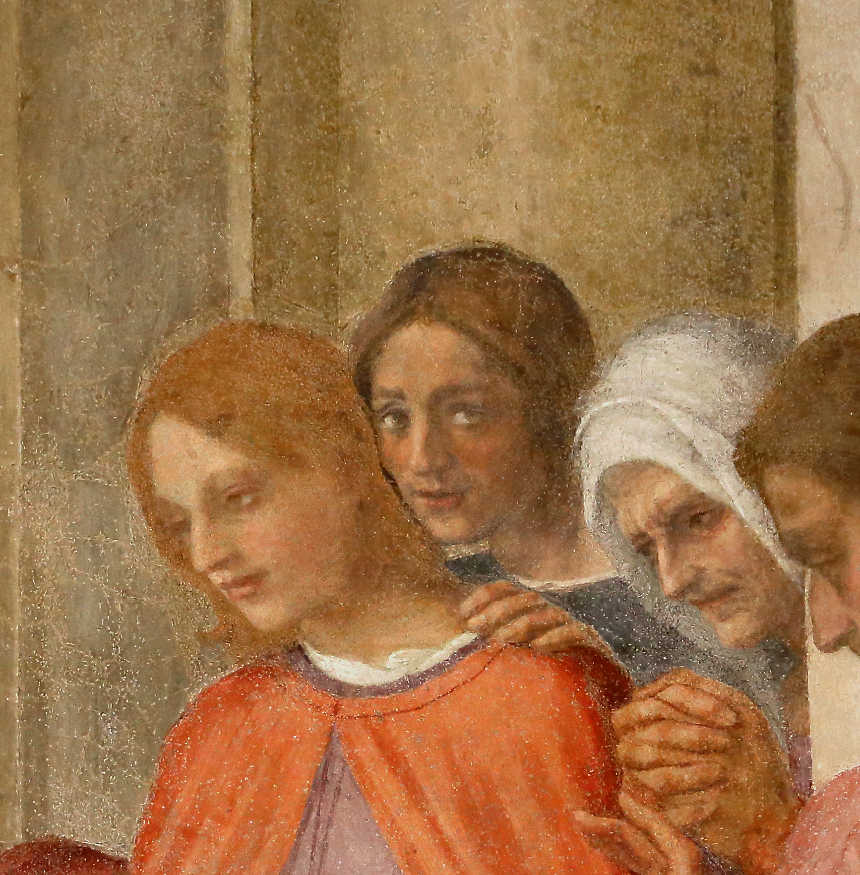 Death of Saint Philip Benizi and Resurrection of a Child by Andrea del Sarto